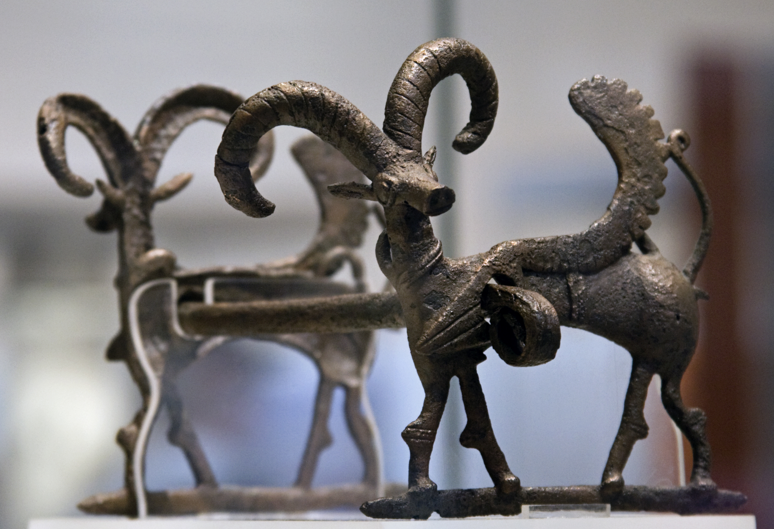 A Luristan bronze bridle bit with winged goats in the British Museum. Tag on exhibit reads: "Luristan bronzes: 9th-8th century BC, Luristan. Winged goats 122930." See BM database entry for more details.